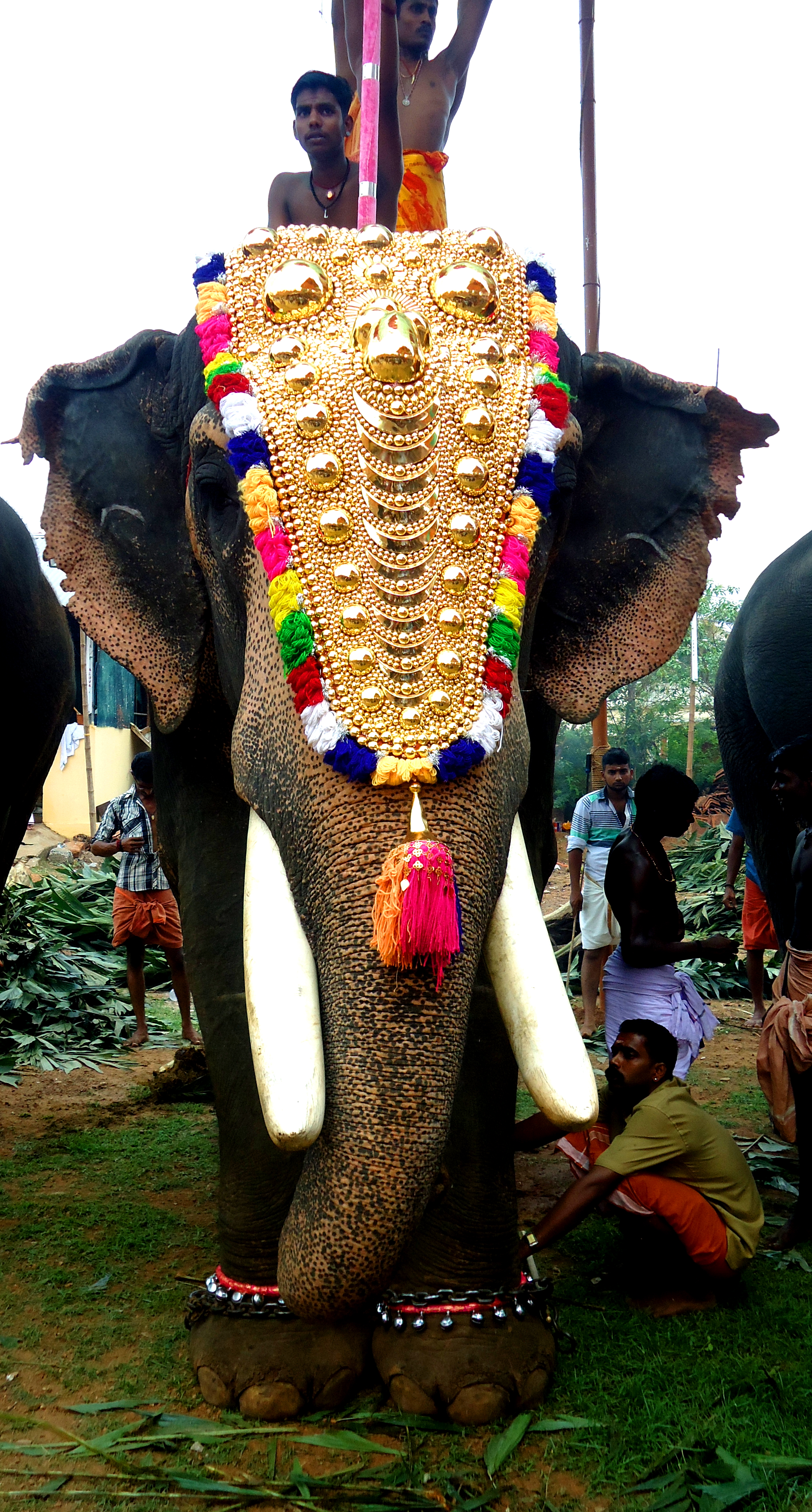 Kerala_Elephant_at_Festival